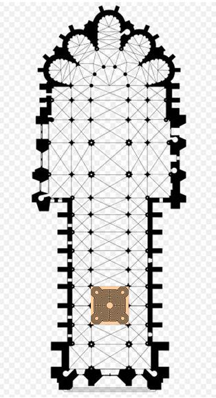 The labyrinth in its place at the 3rd and 4th ranks of the Reims cathedral (Marne, France).